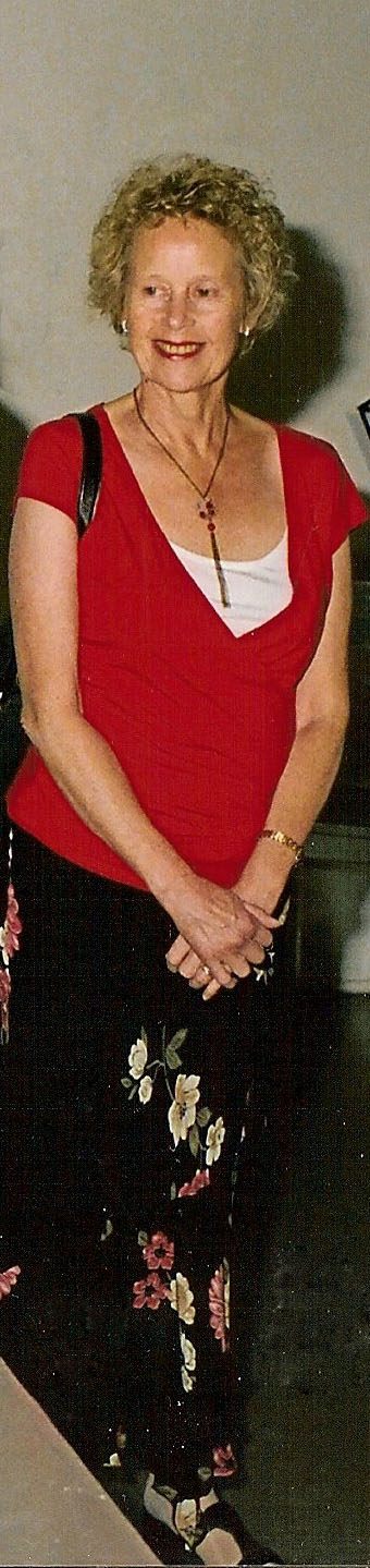 Aeronwy Thomas: poetry reading in Torino, Italy Aeronwy Thomas: poetry reading in Torino, Italy